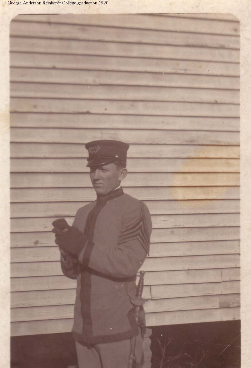 Reinhardt College military cadet George Anderson (c. 1920). This image is to depict what Reinhardt's cadets looked like in the early 20th century; this campus has lost much of its historical images due to fire; examples of this nature are extremely rare.